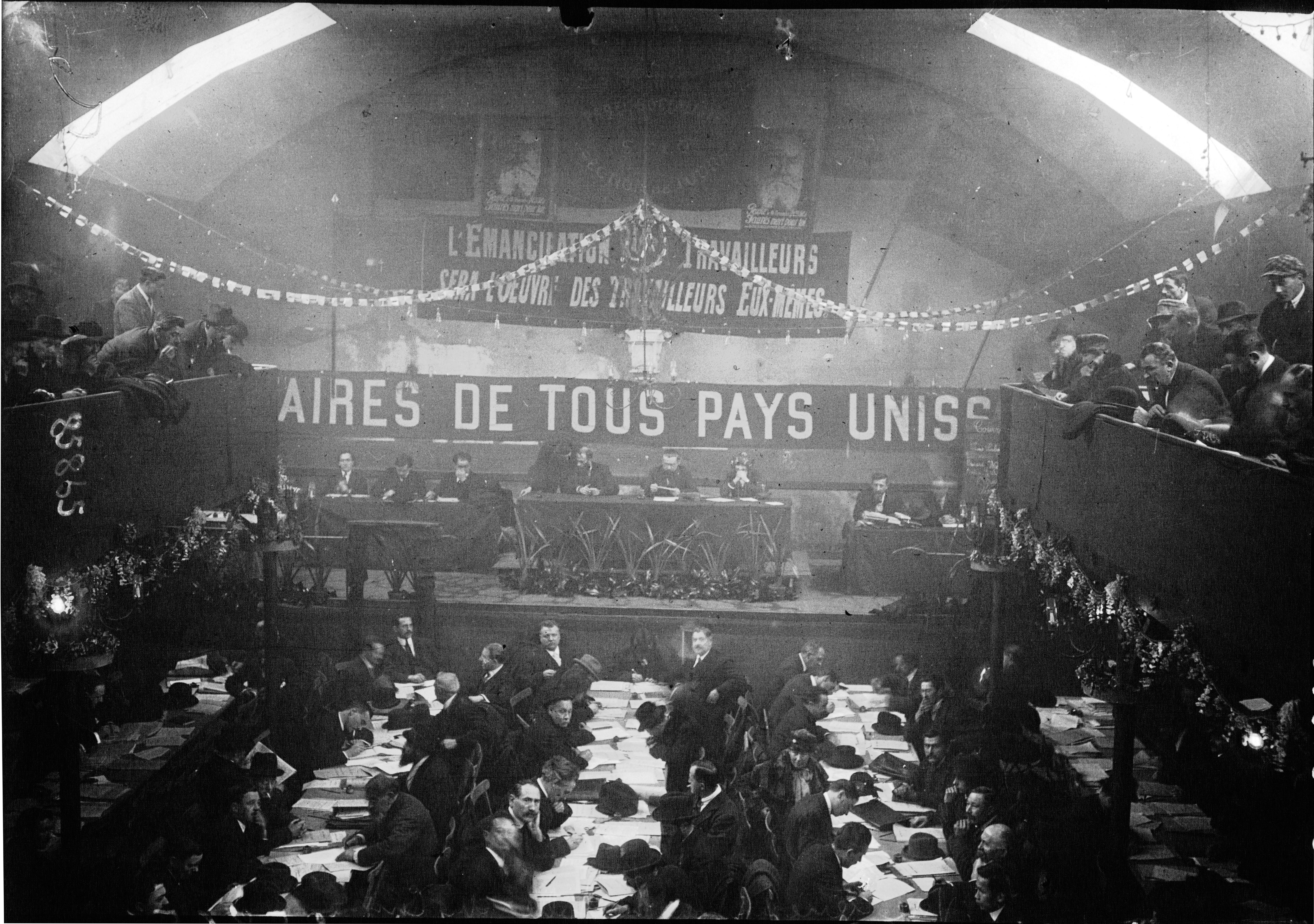 The constitutive Congress of the French Communist Party, Tours, 1920. A large banner reading Prolétaires de tous les pays, unissez-vous! ("Proletarians of all countries, Unite!").